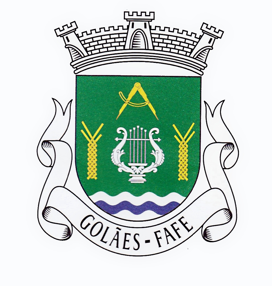 Brasão da freguesia de Golães do concelho de Fafe